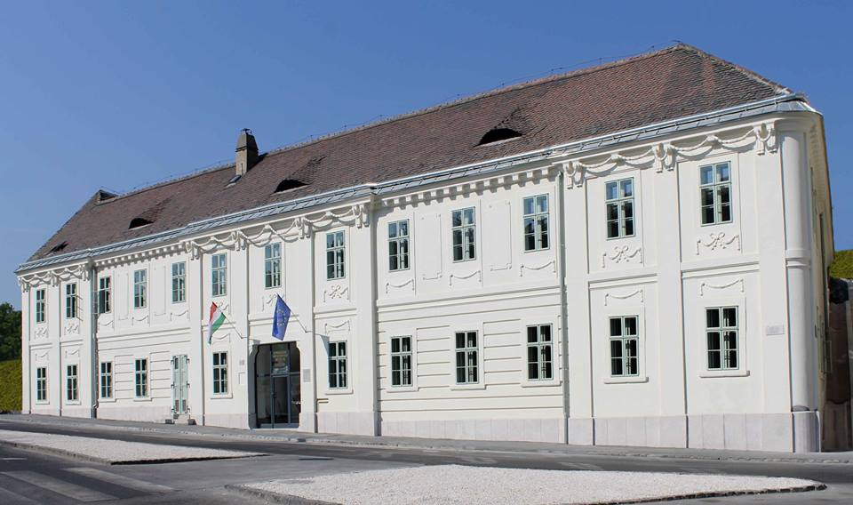 Late Baroque house, originally built around 1790, rebuilt after the 1810 Tabán fire. Listed building ID: 5. Partially destroyed in 1945 but rebuilt in 1962-64 for the Semmelweis Museum of Medical History. Birthplace of Ignác Semmelweis. - 1-3. Apród utca, District I., Budapest, Hungary.